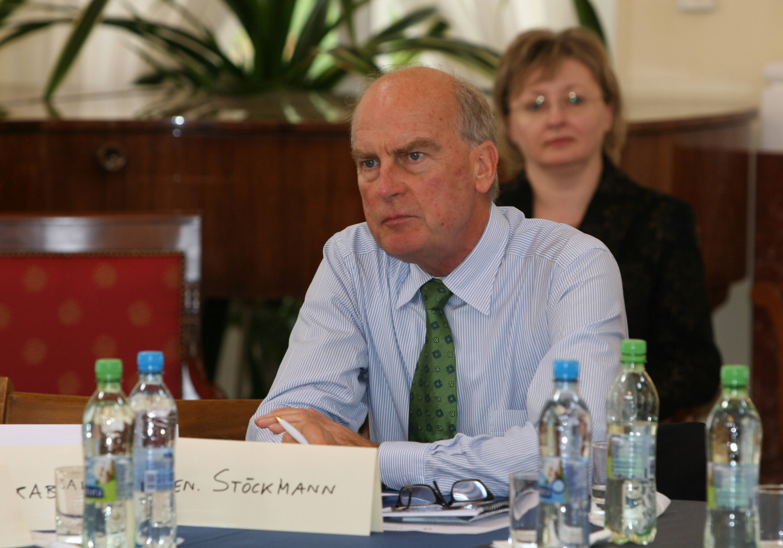 Former Bundeswehr general Dieter Stöckmann at Prague Society discussion in Prague